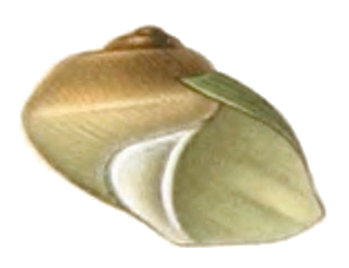 Drawing of an apertural view of a juvenile shell of Potamolithus rushii.